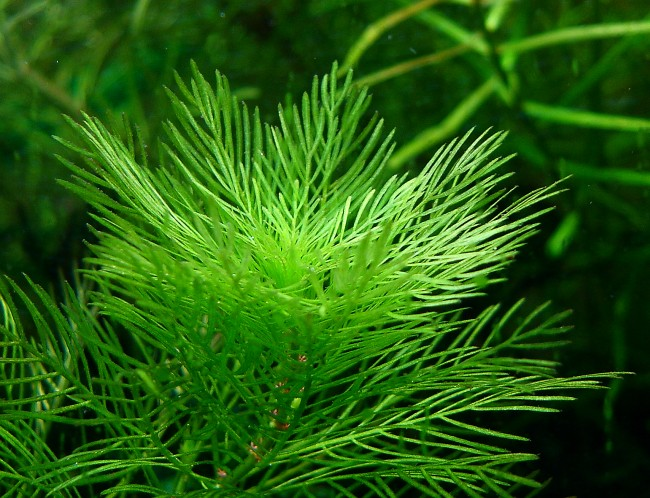 Myriophyllum matogrossense is a fast growing aquarium plant from South America.